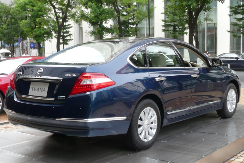 Nissan Teana.